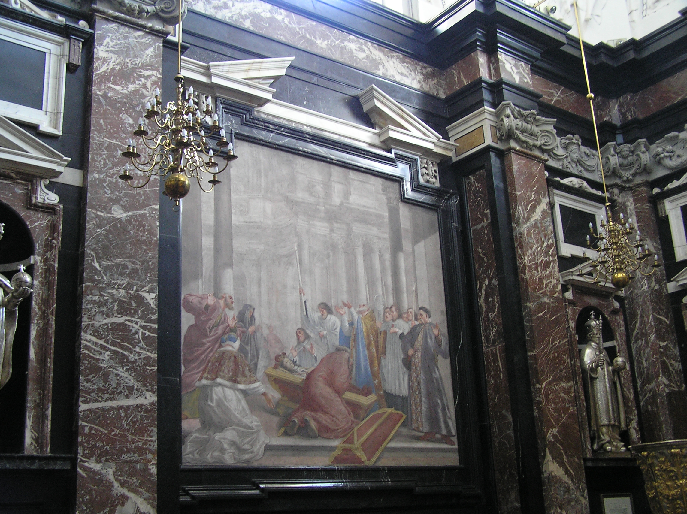 St. Casimir's Chapel, Vilnius Cathedral